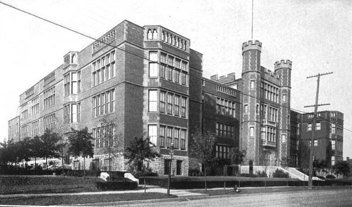 Photograph of McKinley High School in St. Louis, Mo., from the 1910 Bulletin of the U.S. Bureau of Education, Department of the Interior